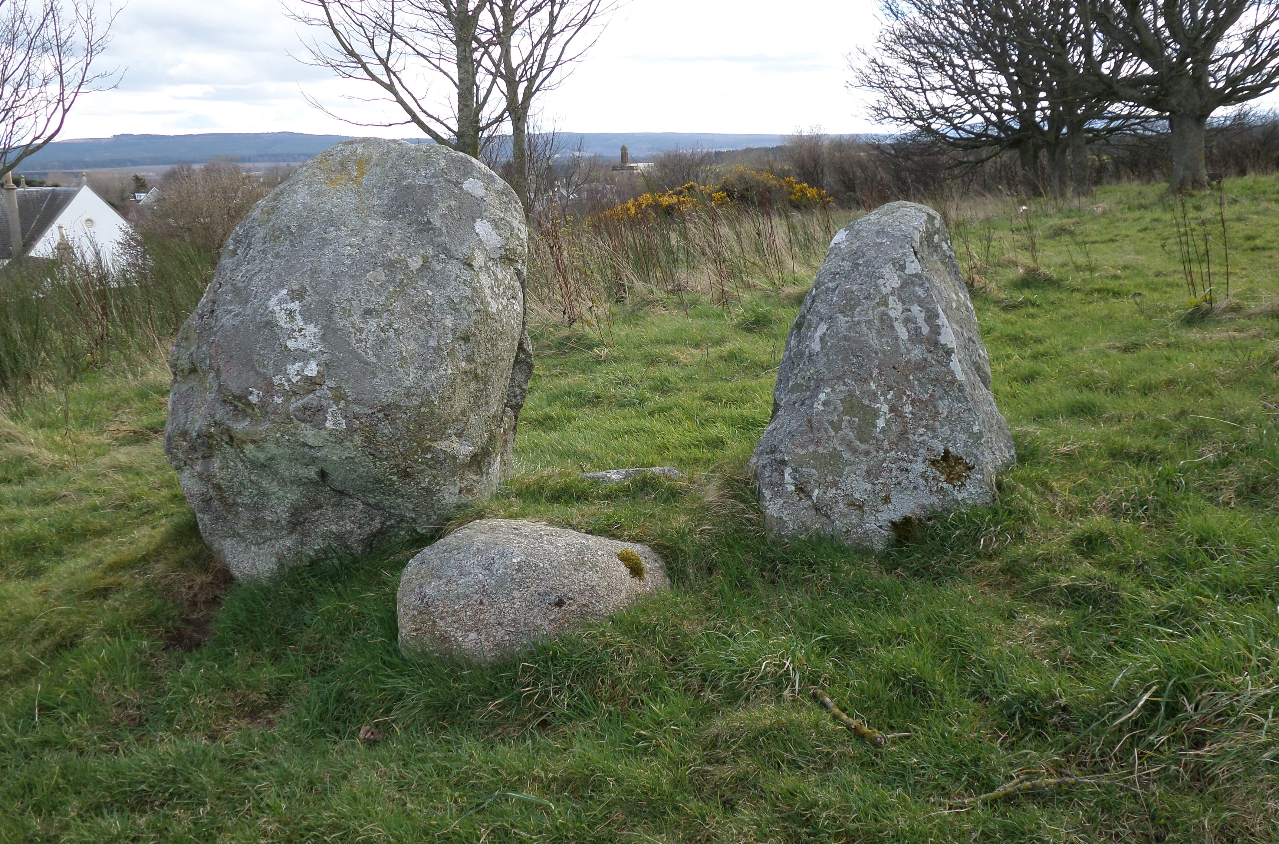 Four Poster megalith stones - Kingston on Spey, Moray, Scotland.